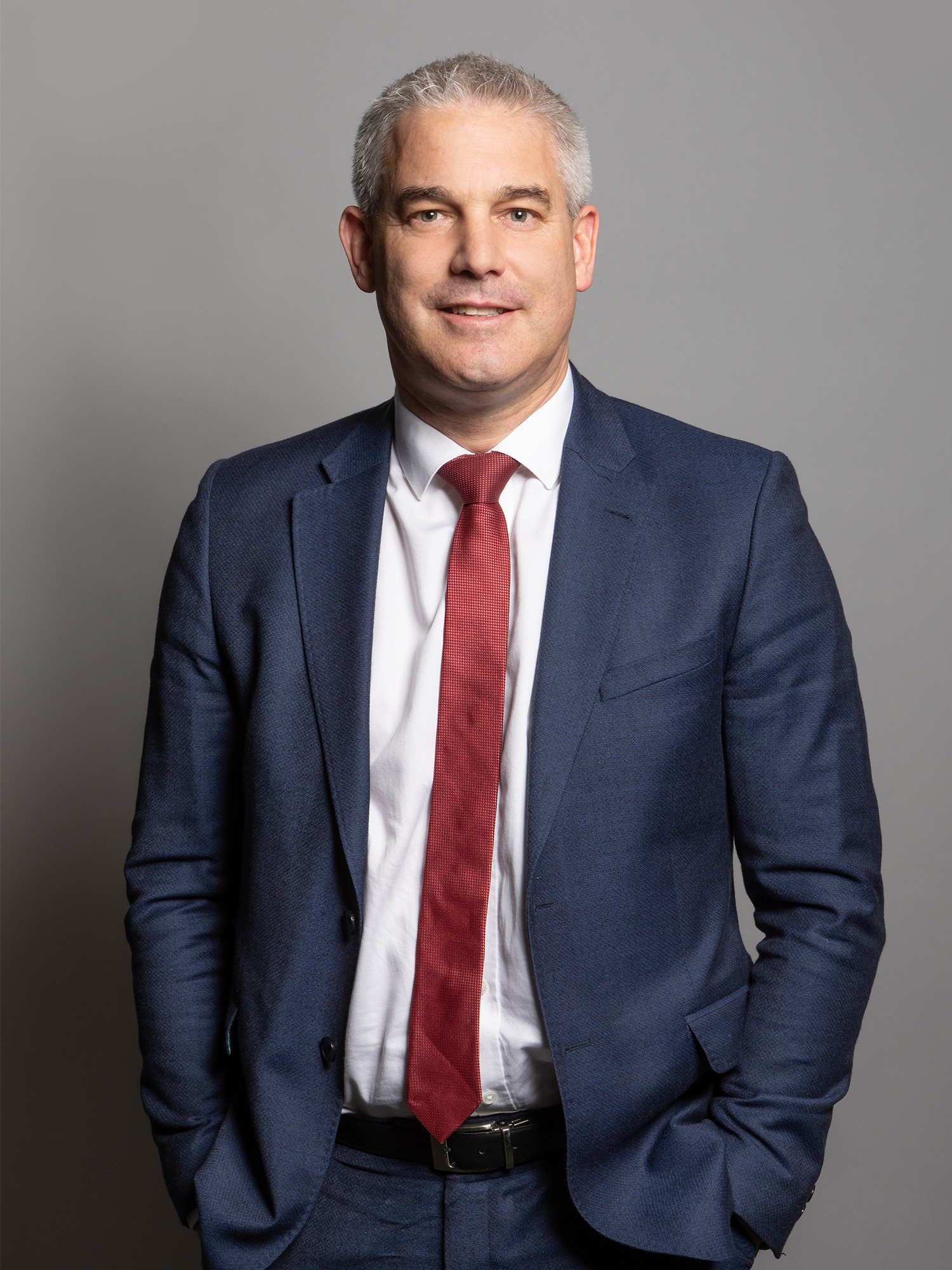 Official portrait of Rt Hon Steve Barclay MP Full sized portrait of Steve Barclay